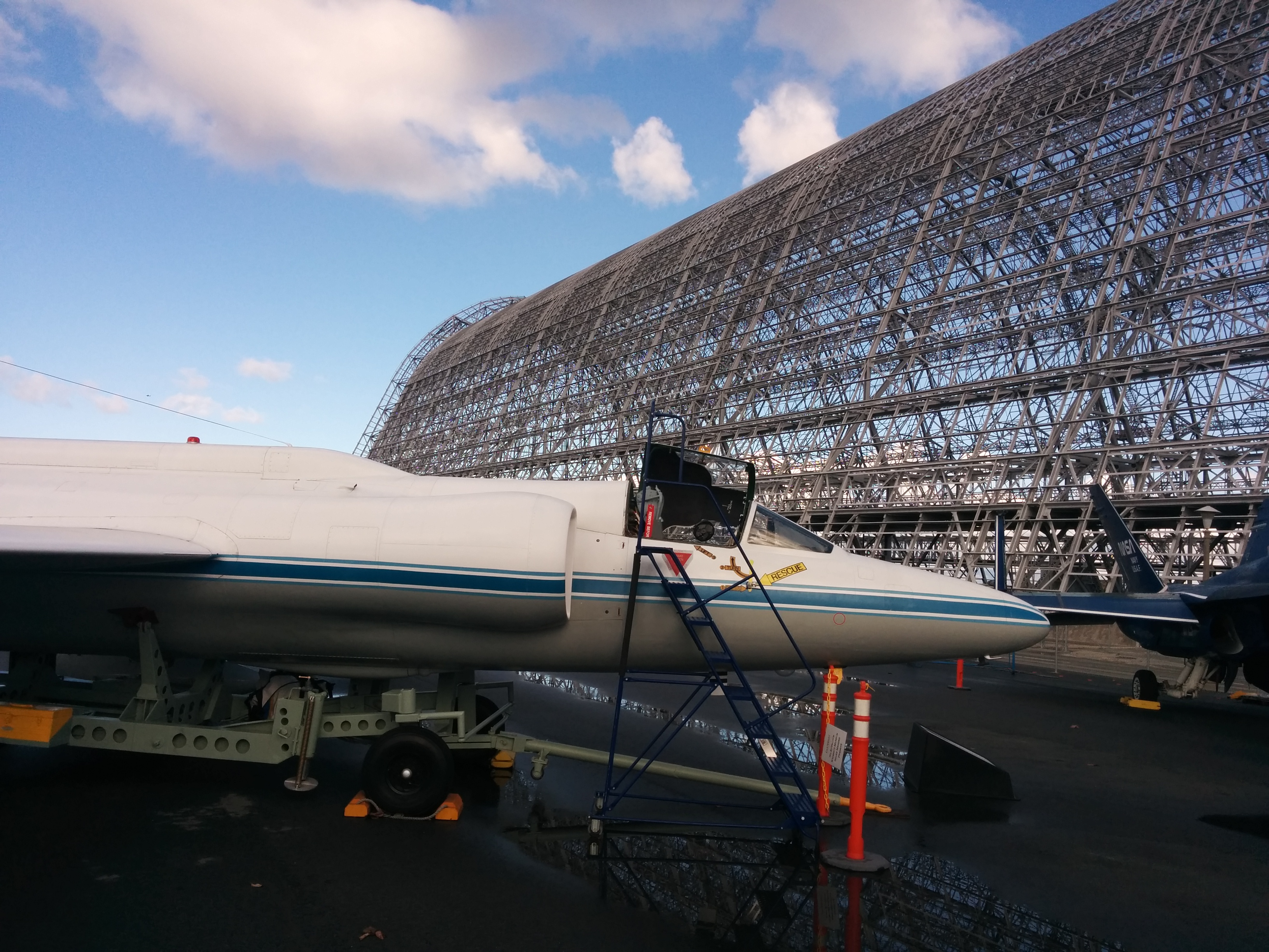 U-2/ER-2 on display at NASA/Moffett Field Museum. The background is the bare structure of Hangar One. The skin of the hangar will be restored by Google. The landing gears of this U-2/ER-2 was modified for carrier operations.